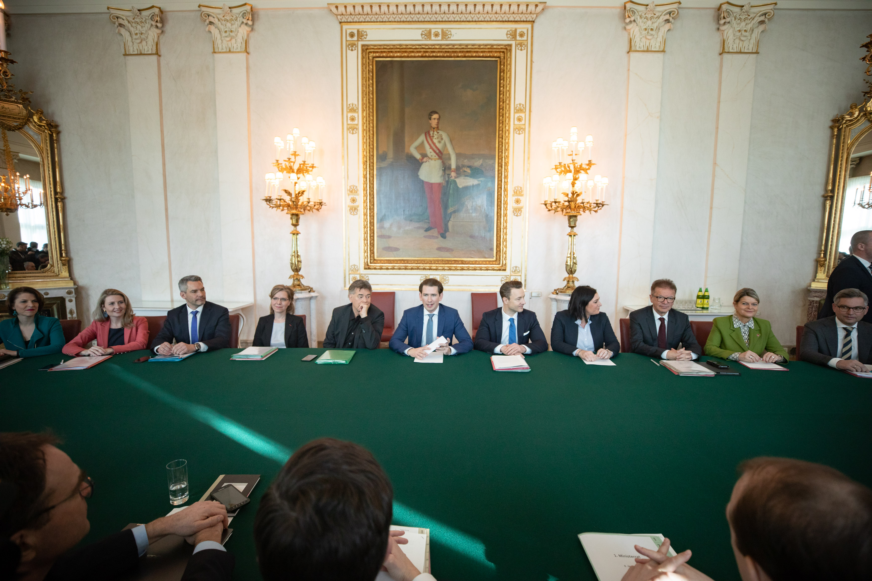 Fotocredit: BKA